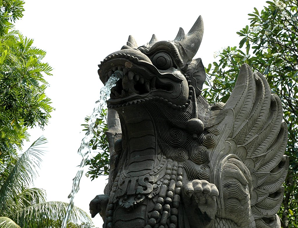 A dragon statue at Jakarta International School.